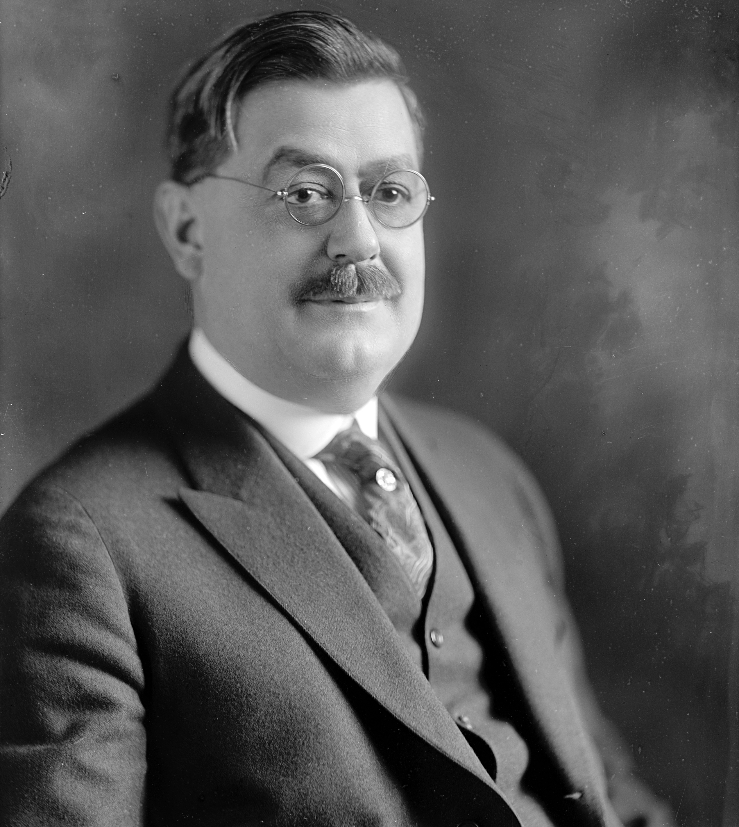 Harris Jacob Bixler, US Representative from Pennsylvania